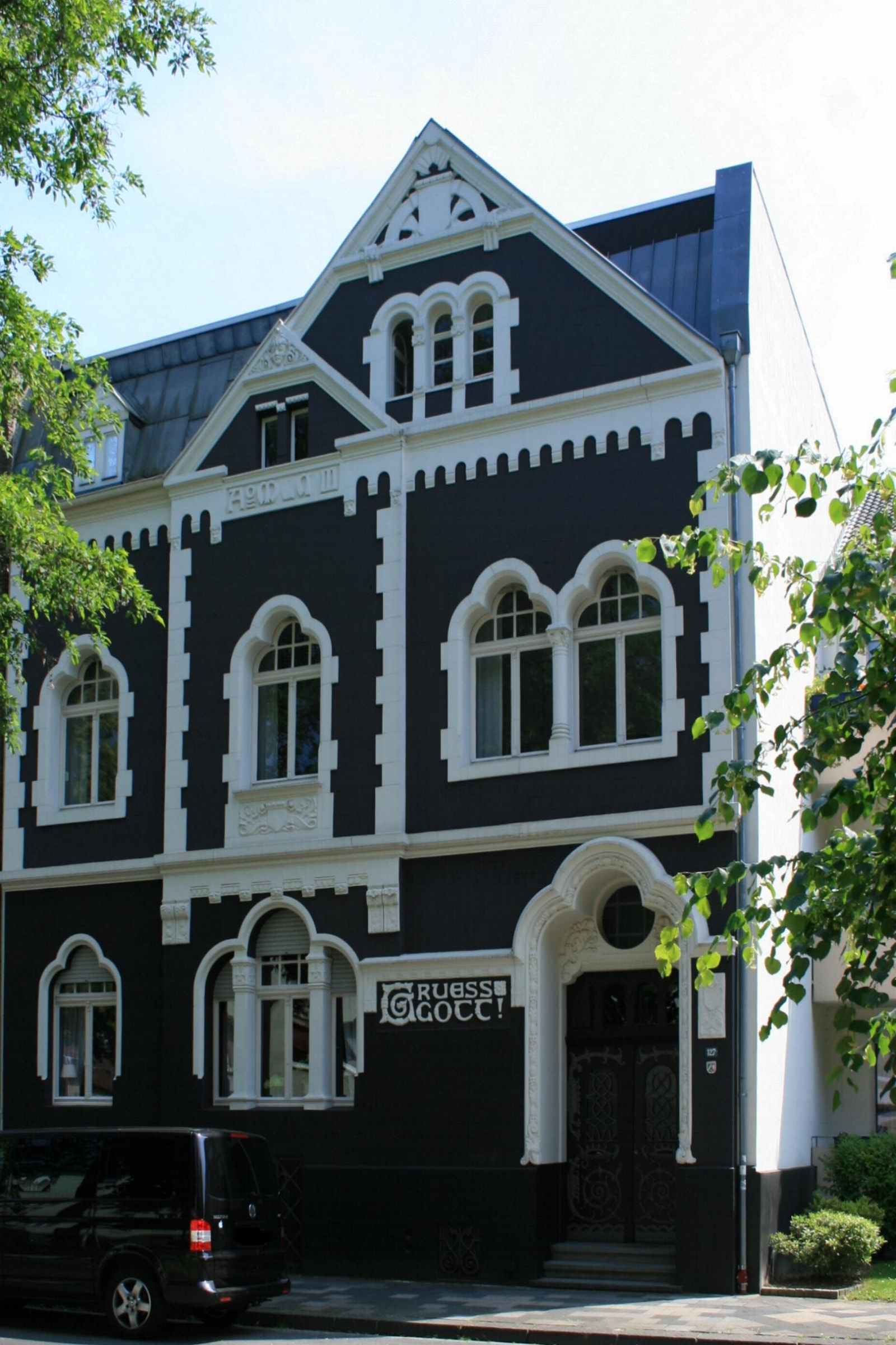 Cultural heritage monument No. R 042 in Mönchengladbach